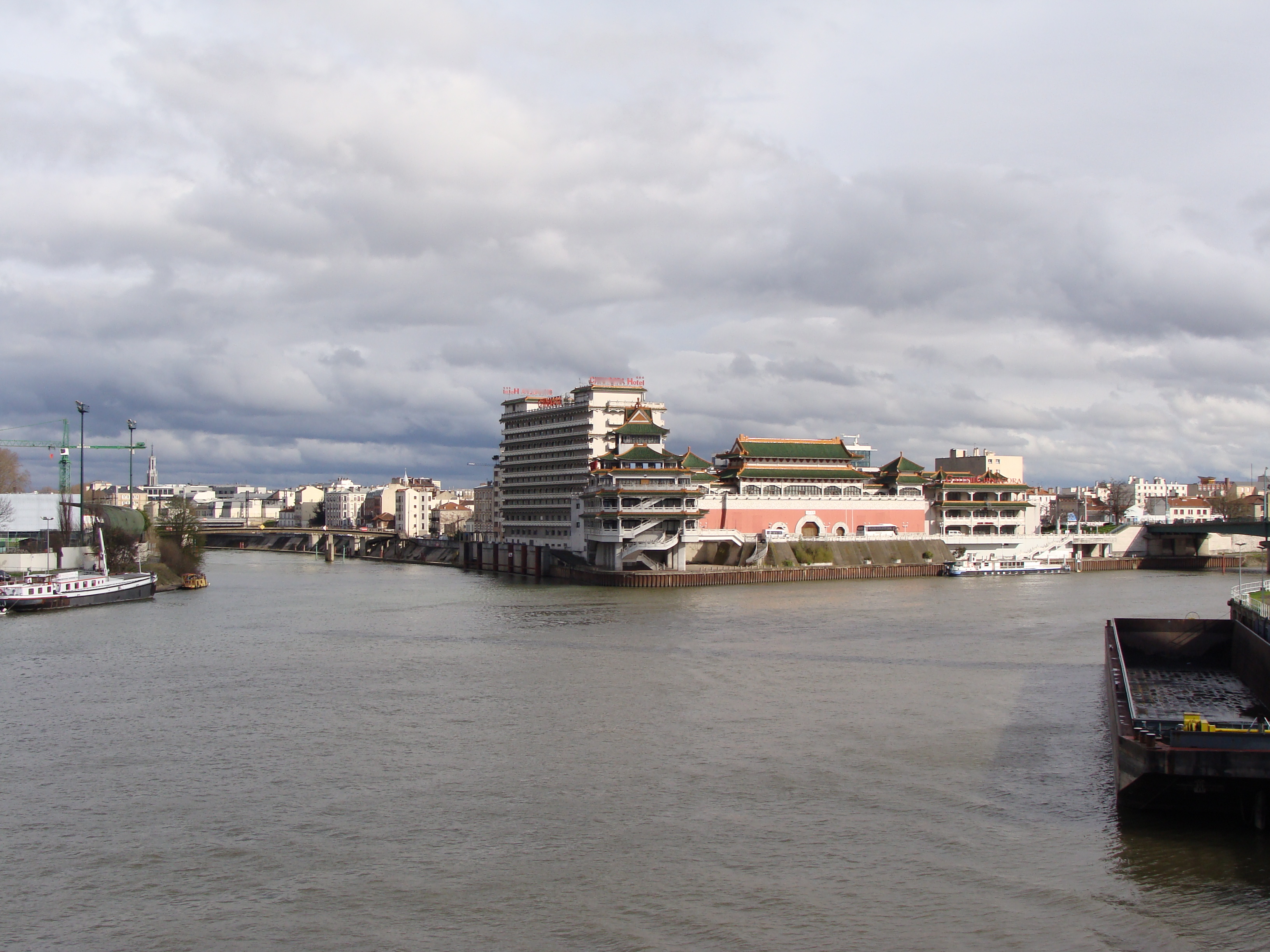 confluence between the Seine and Marne rivers in Alfortville (Val-de-Marne), just before Paris.